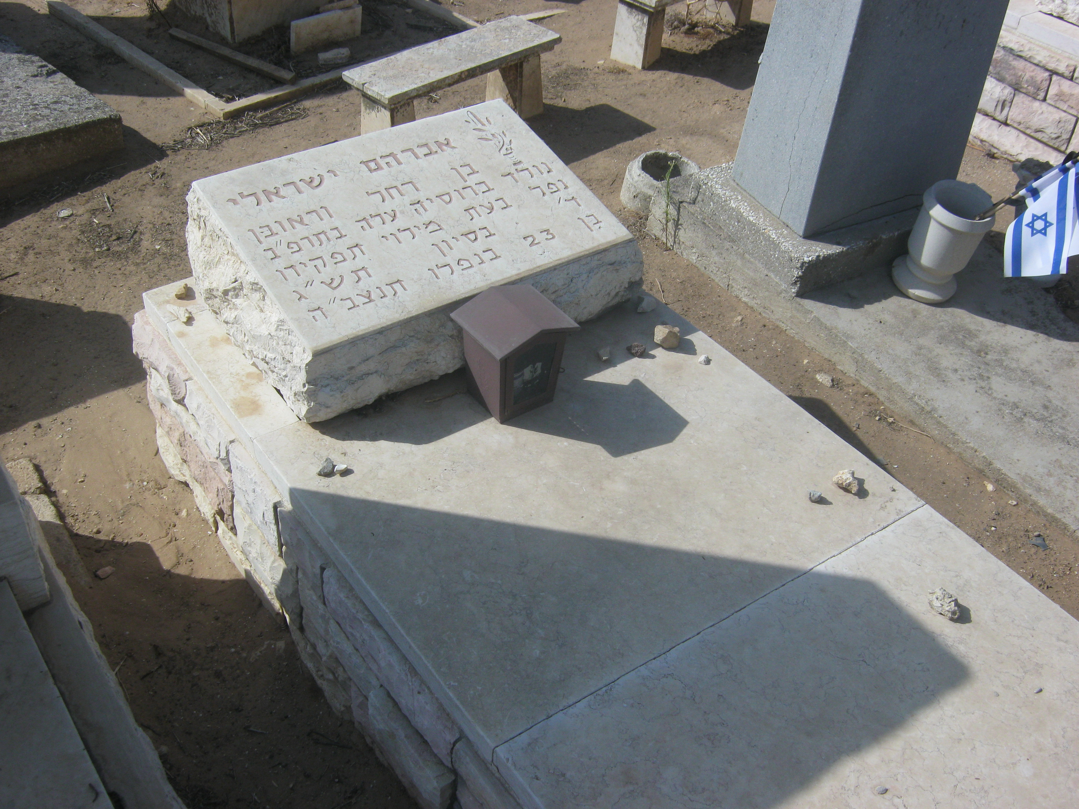 Geulim Old Cemetery at Kfar Sava - Grave of Abraham Israeli